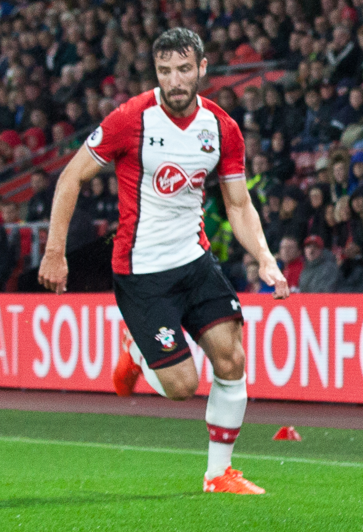 Pre-season friendly Wednesday 2 August 2017 Image by Steve Hogg